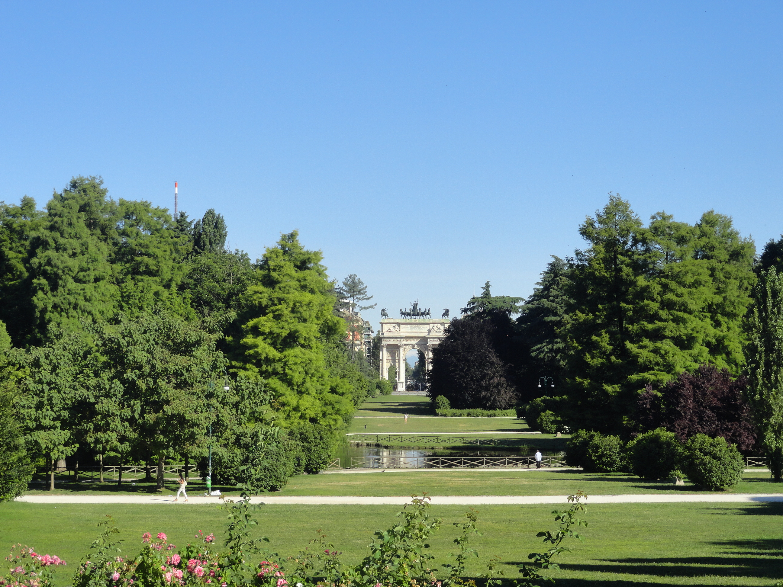 In the beautiful Parco Sempione you will find the Arco della Pace (the Arch of Peace) in Milan, Italy. Find out more interesting photos at out travel blog